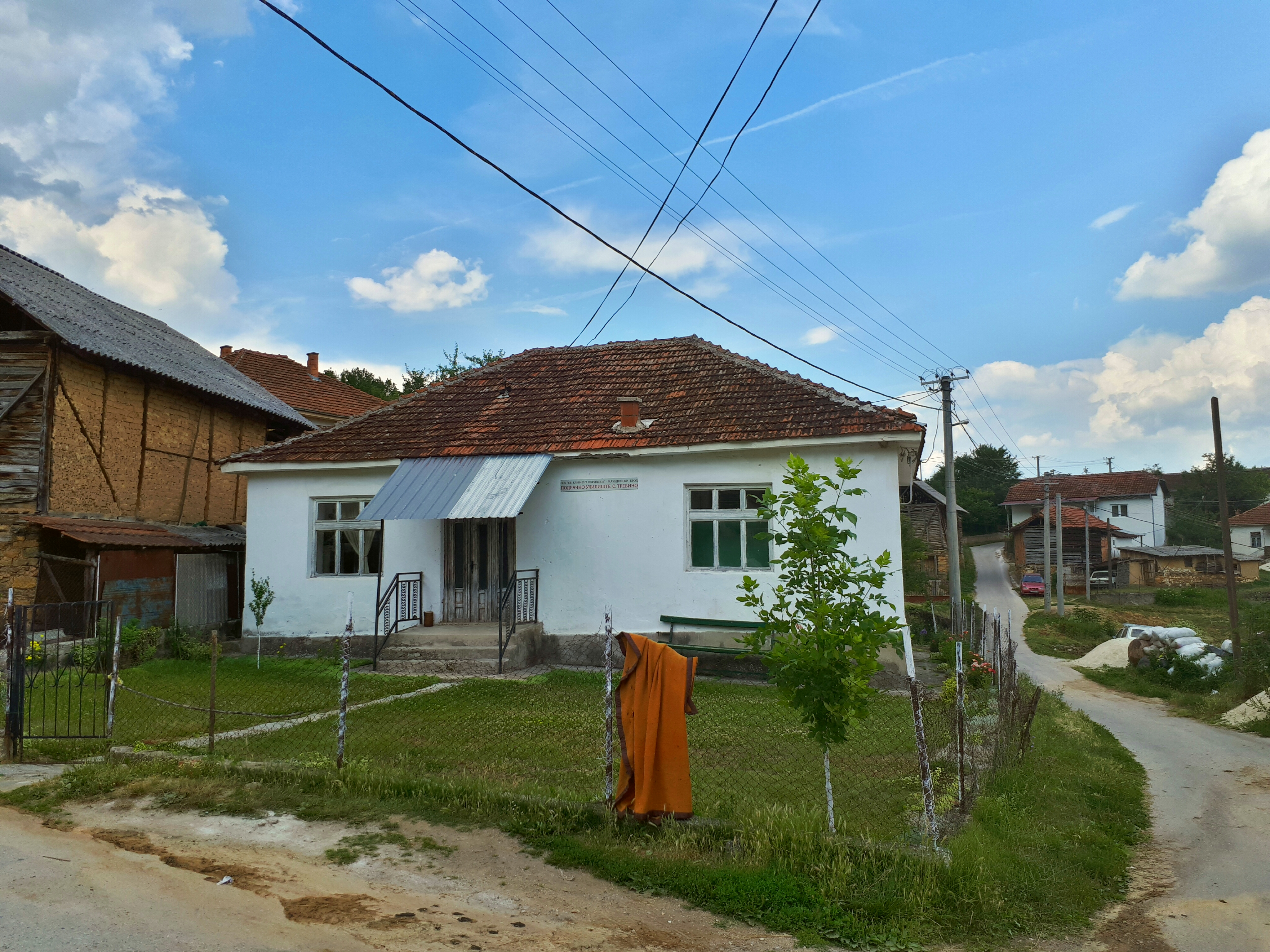 Primary school in the village Trebino